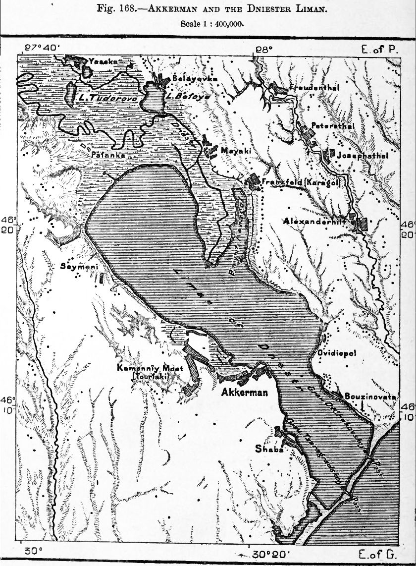 Liman of Dnestr